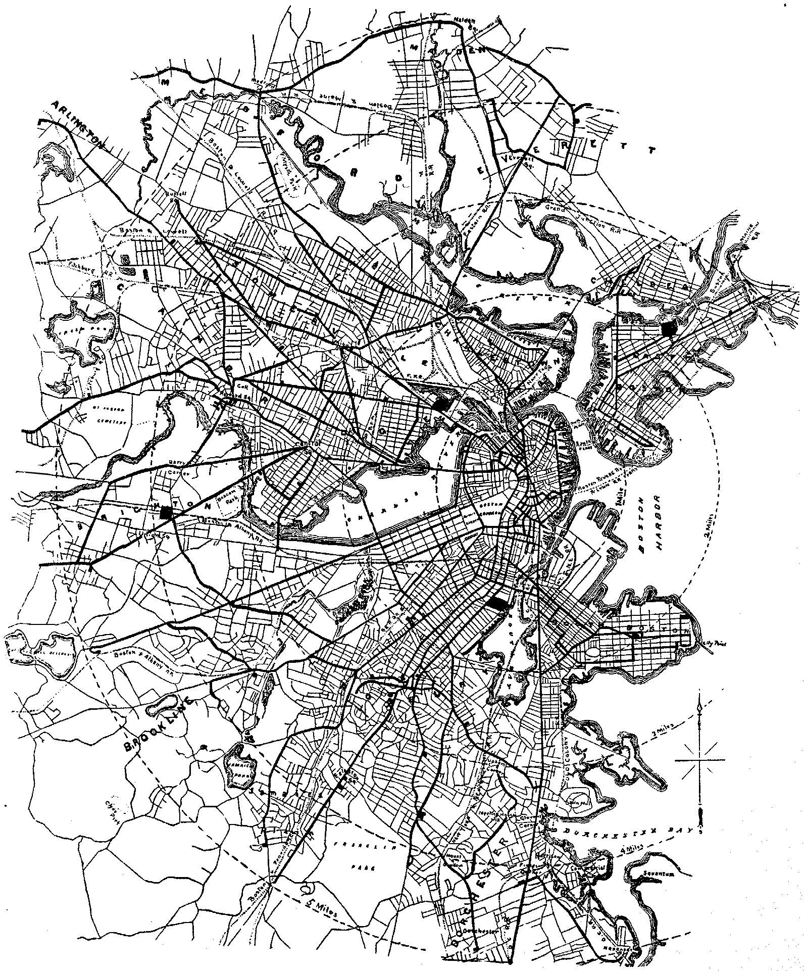 Map of the West End Street Railway (today's Green Line (MBTA)) in Boston. Massachusetts, USA, drawn in 1885. Due to its age, the map is in the public domain.